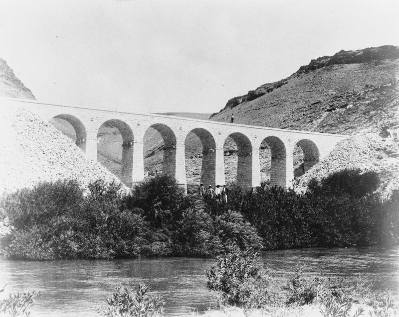 T E Lawrence and the Arab Revolt 1916 - 1918 Hejaz Railway - The first railway bridge after leaving Shajara station.